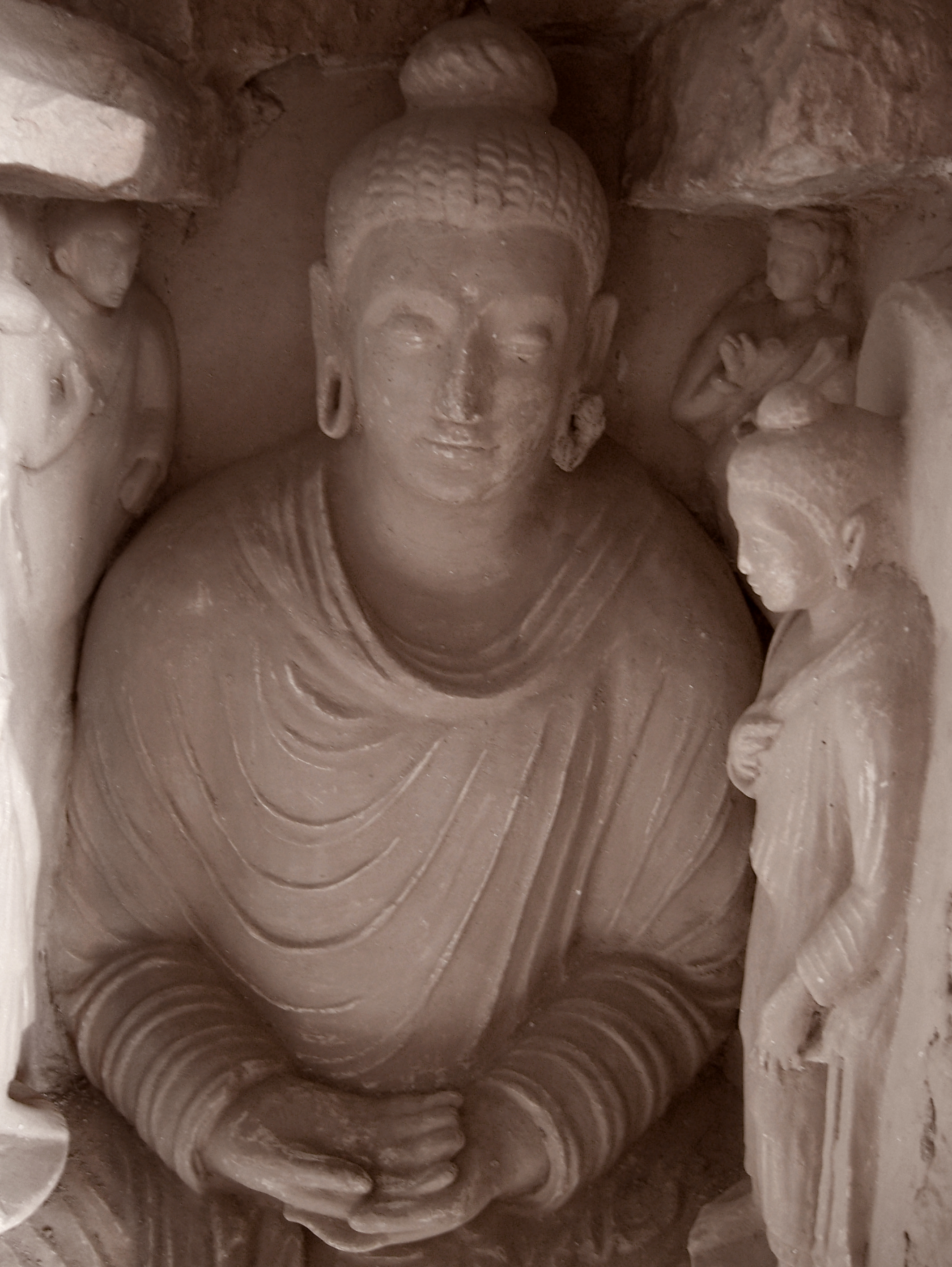 A statue of Buddha at Jaulian — Pakistan.